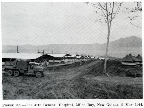 This is a picture of the 47th General Hospital at Milne Bay, New Guinea. The officers of this hospitals were from the College of Medical Evangelists (later named Loma Linda University Medical School)